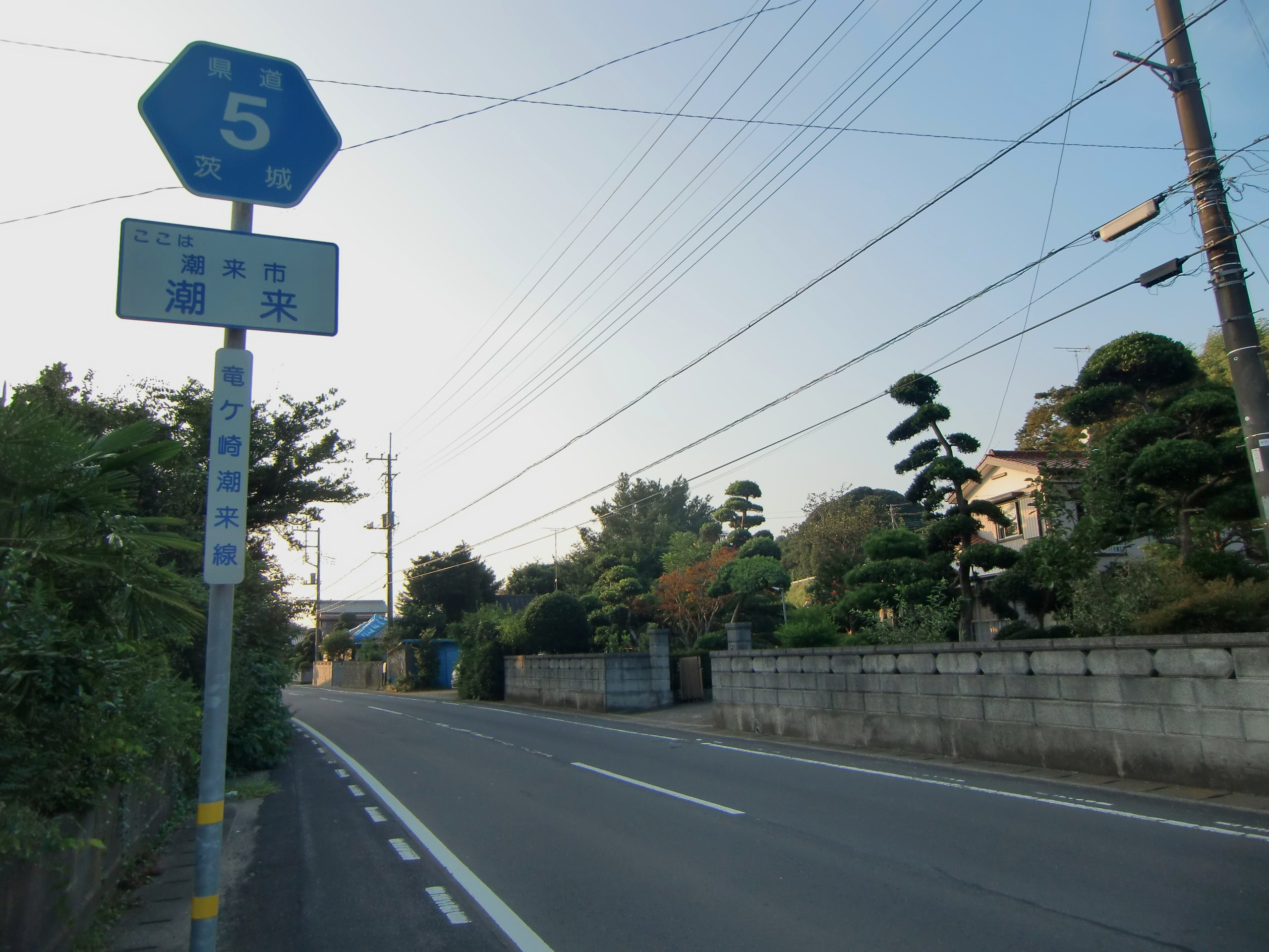 Ibaraki prefectural road 5 (Ryūgasaki-Itako line), which is in Itako, Itako-city, Ibaraki-pref, Japan.